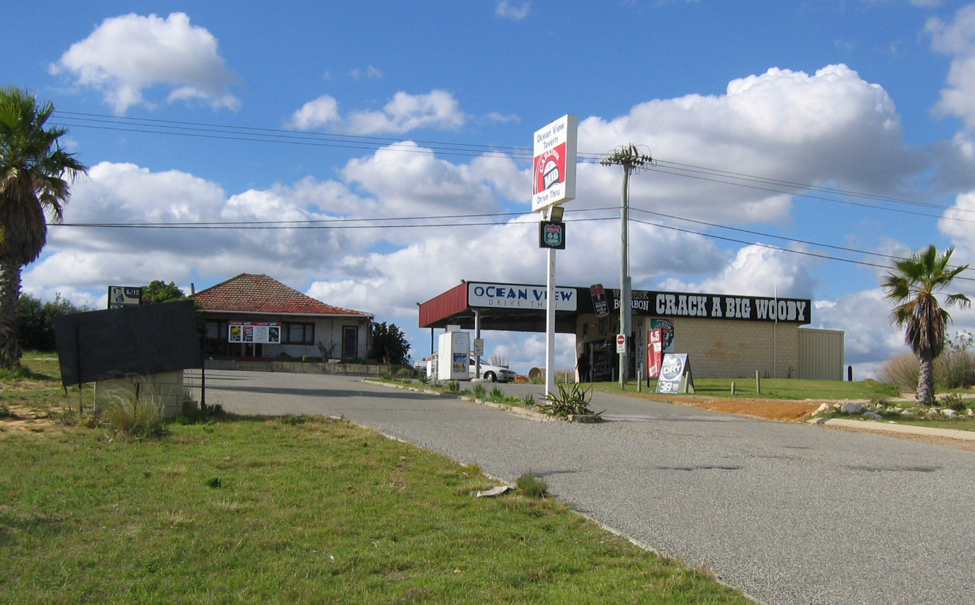 Picture of Ocean View Tavern on Wanneroo Road in outer northern Perth, Western Australia.